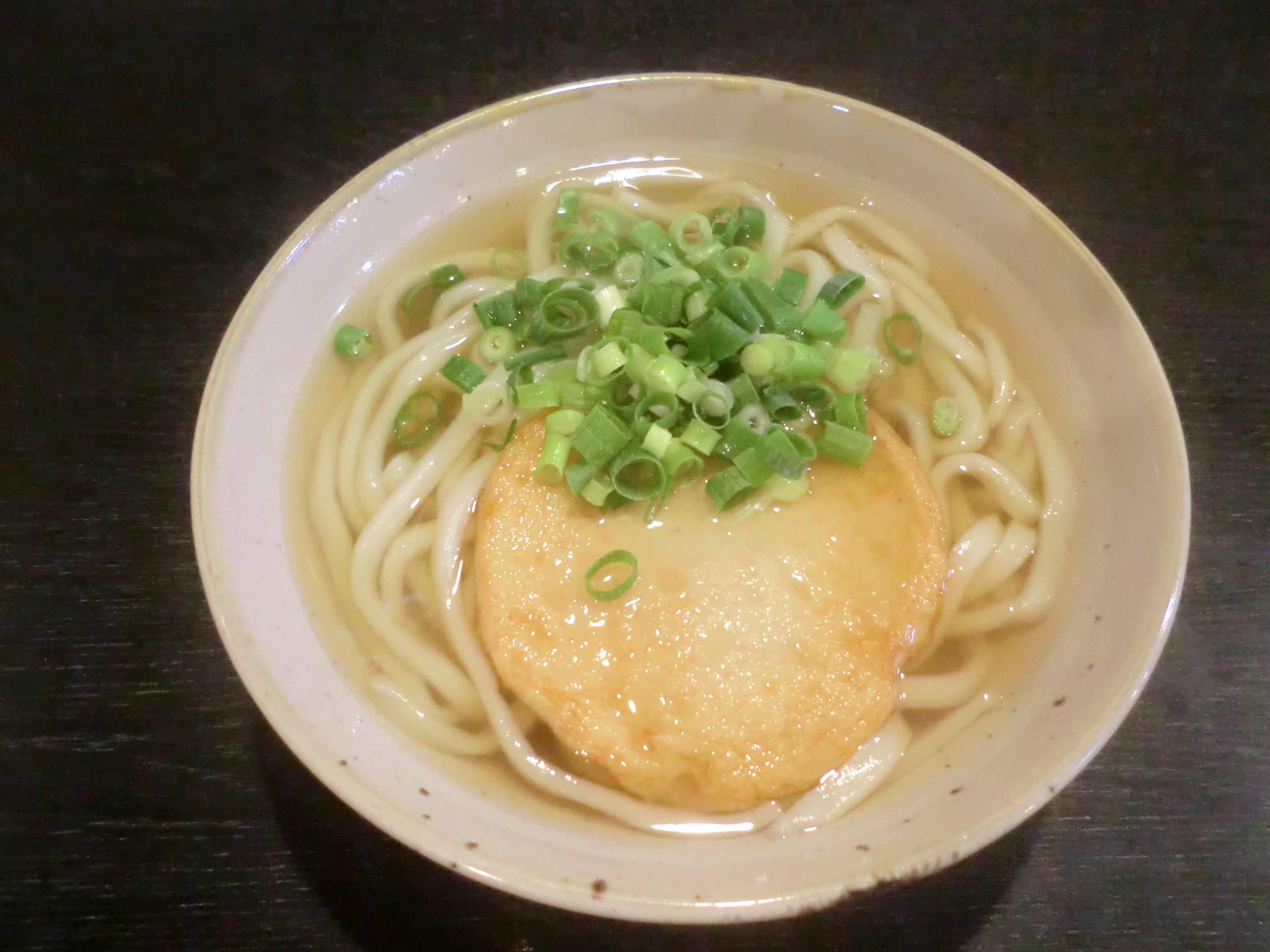 Traditional Hakata(Fukuoka city) style udon.Photographed in old udon shop "Kiya" at Fukuoka,Japan.